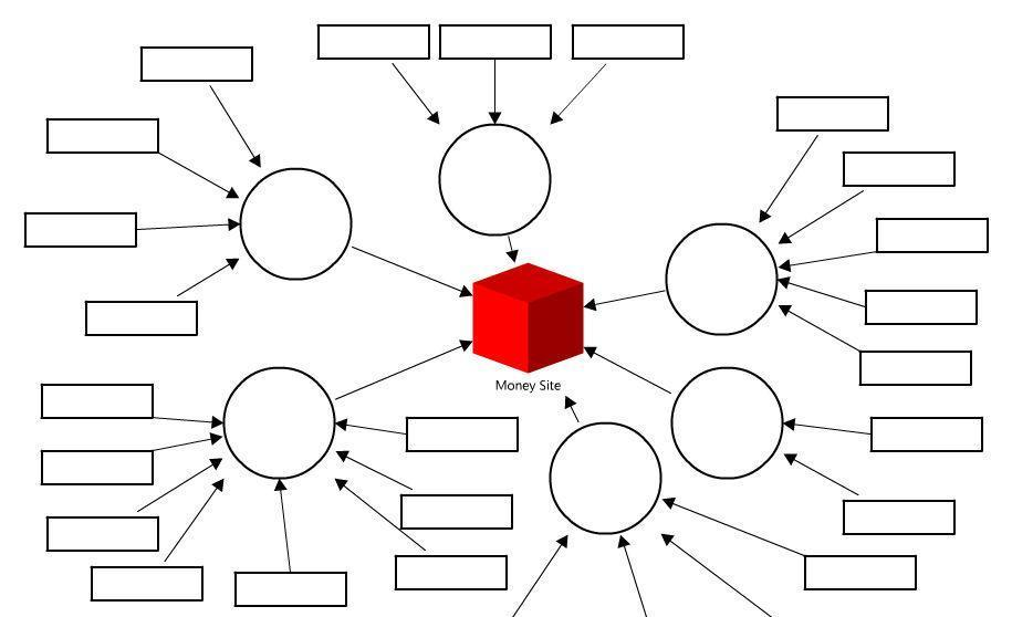 Diagram of linkpush from . (SEO)